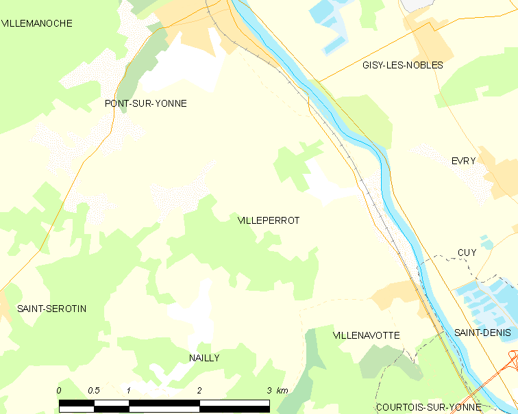 Map of French municipality Villeperrot